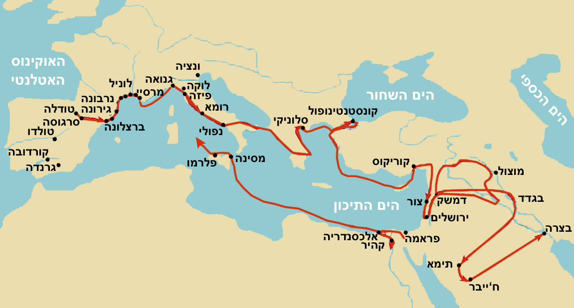 Benjamin of Tudela HE based on File:Benjamin of Tudela route.jpg